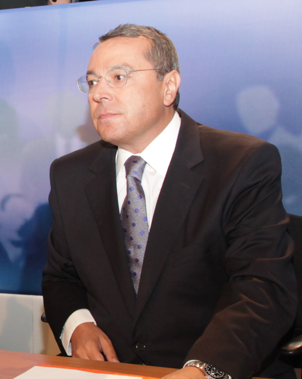 Journalist Aimilios at the six party leaders' televised debate ahead of the 2009 Greek legislative elections.